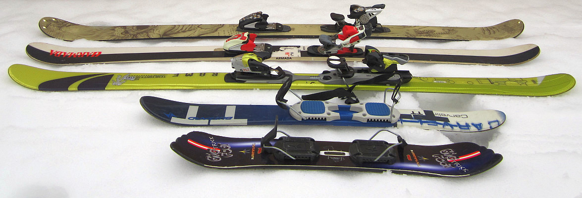 Twintip skis from back to front: freeride ski (K2 Maid'N'AK 2007), park/halfpipe ski (Armada T-Hall 2007), park/halfpipe ski (Salomon Teneighty 2004), skiboards (Blizzard Carvelino TT, Kneissl Bigfoot Trick)